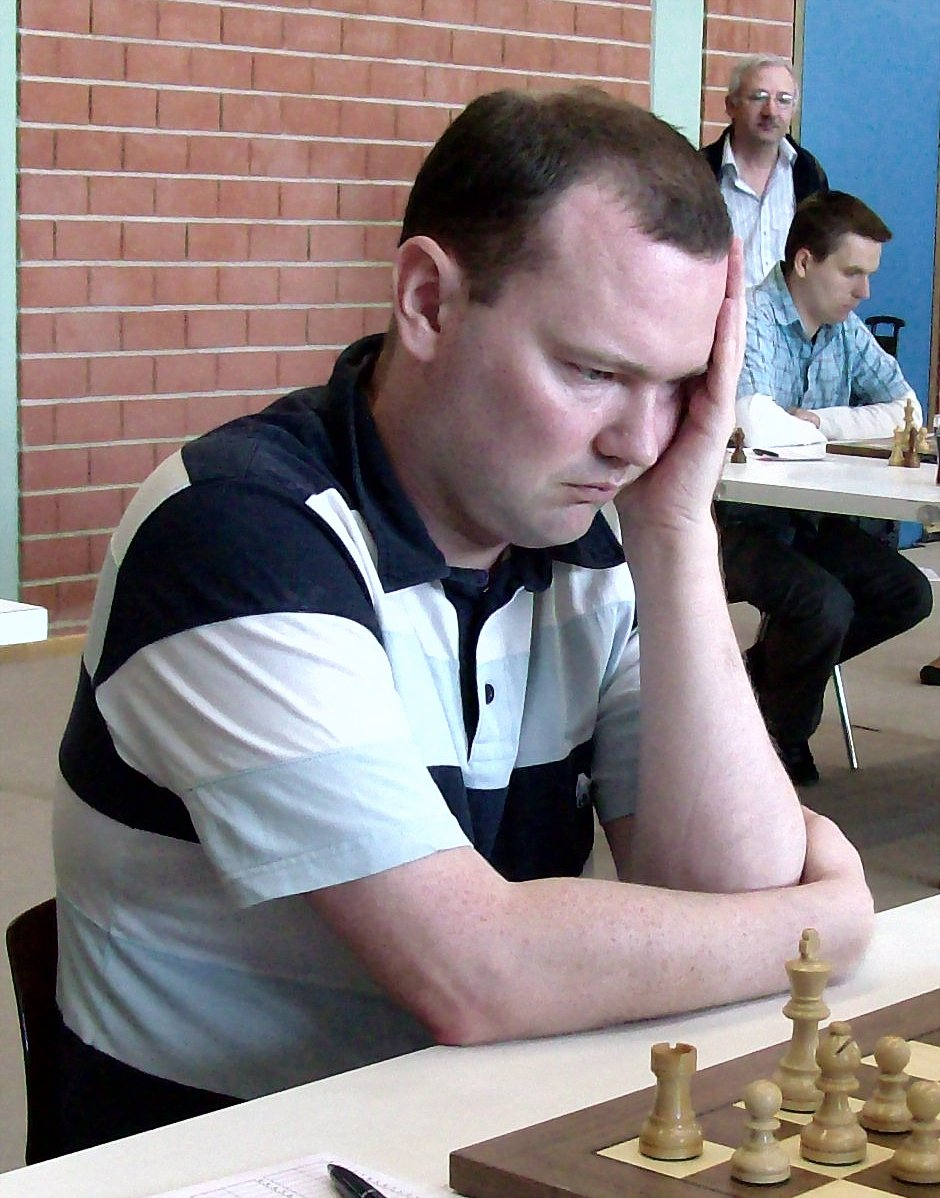 Hannes Stefansson, chess grandmaster from Iceland